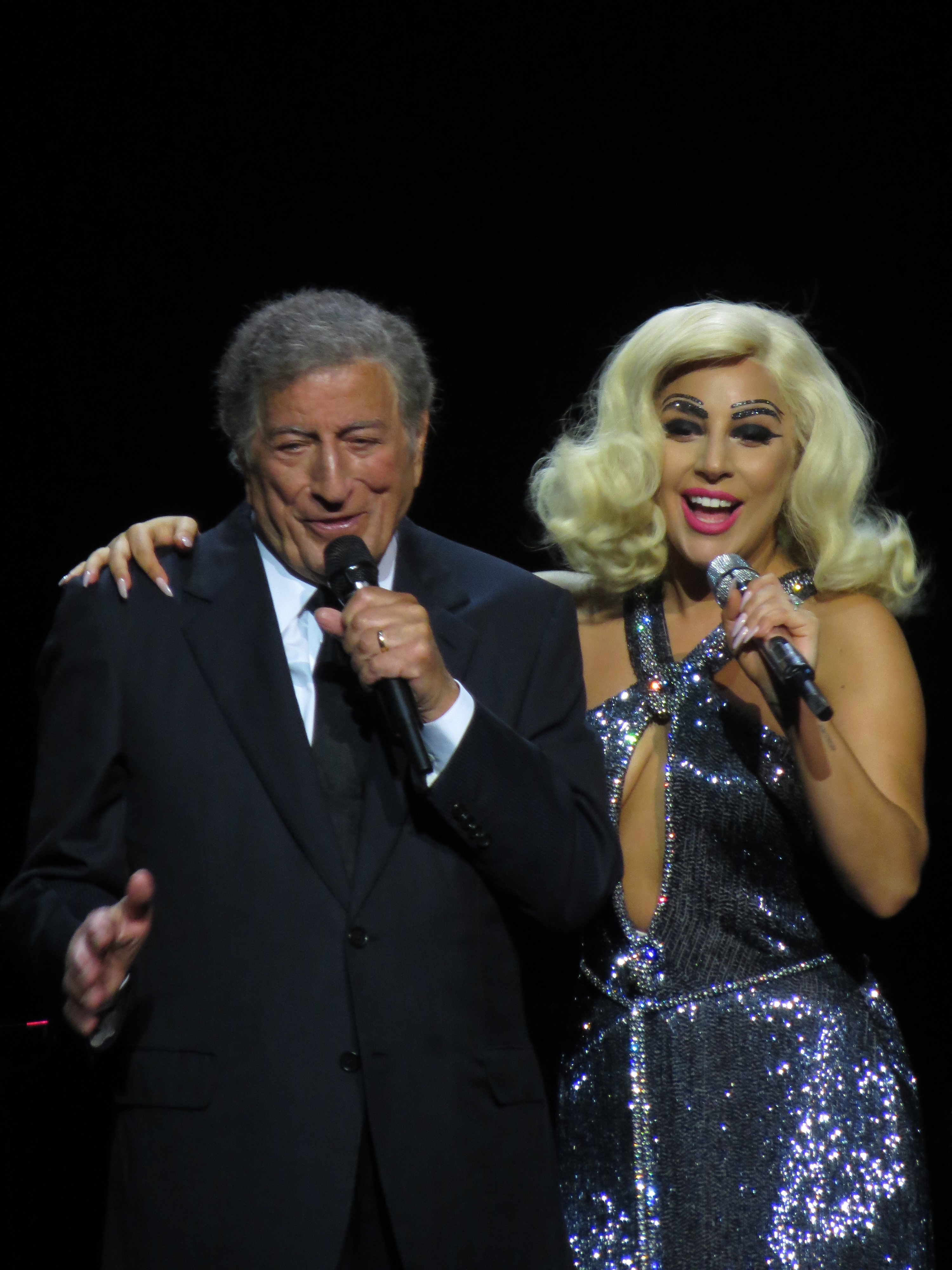 Tony Bennett & Lady GaGa, Cheek to Cheek Tour, London Royal Albert Hall, 8 June 2015.